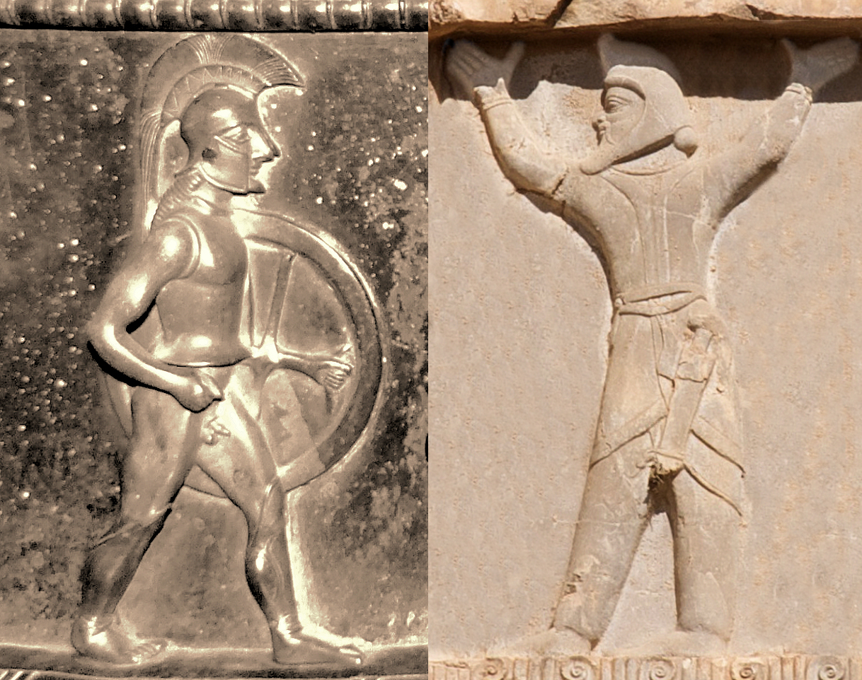 Hoplite circa 500 BCE and Scythian soldier of the Achaemenid army circa 480 BCE